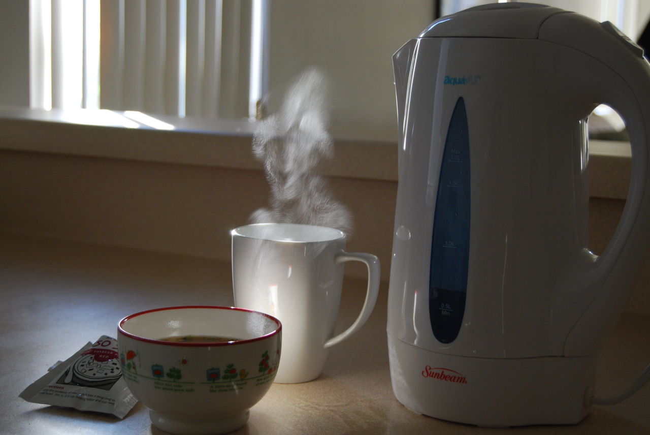 yerba mate & instant miso in the morning